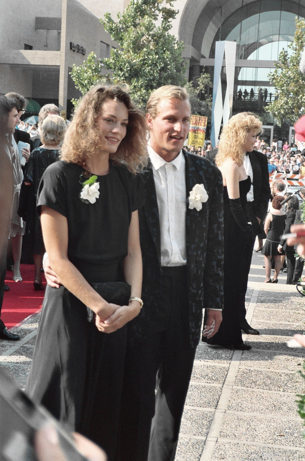 1988 Emmy Awards NOTE: Permission granted to copy, publish, broadcast or post any of my photos, but please credit "photo by Alan Light" if you can. Thanks. Scanned from the original 35MM film negative.